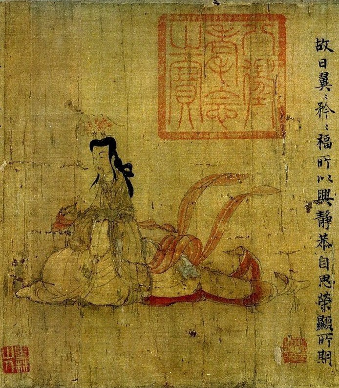 Scene 11 (A lady reflects upon her conduct) of the British Museum copy of the "Admonitions Scroll", attributed to Gu Kaizhi.